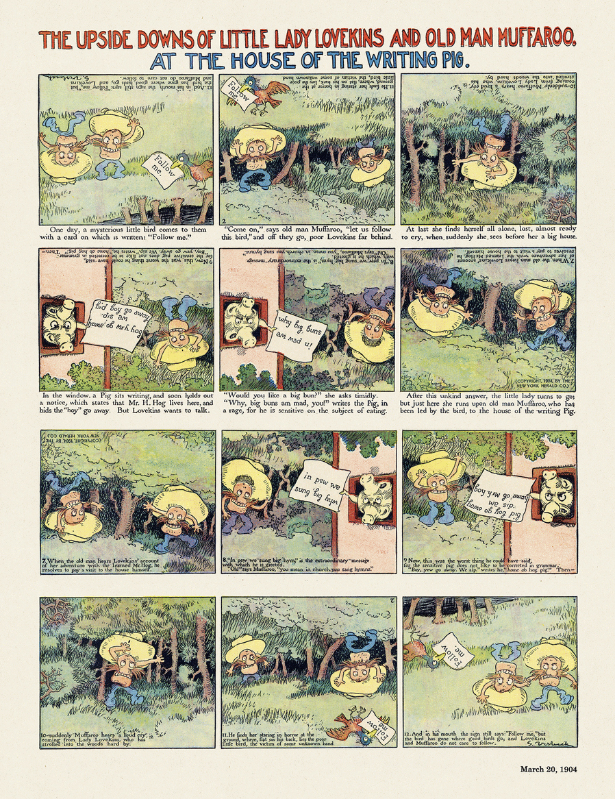 Ambigrams by Gustave Verbeek - comics The Upside Downs of Little Lady Lovekins and Old Man Muffaroo - At the house of the writing pig (1904). The ambigram sentences are "bid boy go away dis am home ob Mr h. hog" / "boy yew go away we sip home ob hog pig" (panel 4) and "why big buns am mad u!" / "in pew we sung big hym" (panel 5).